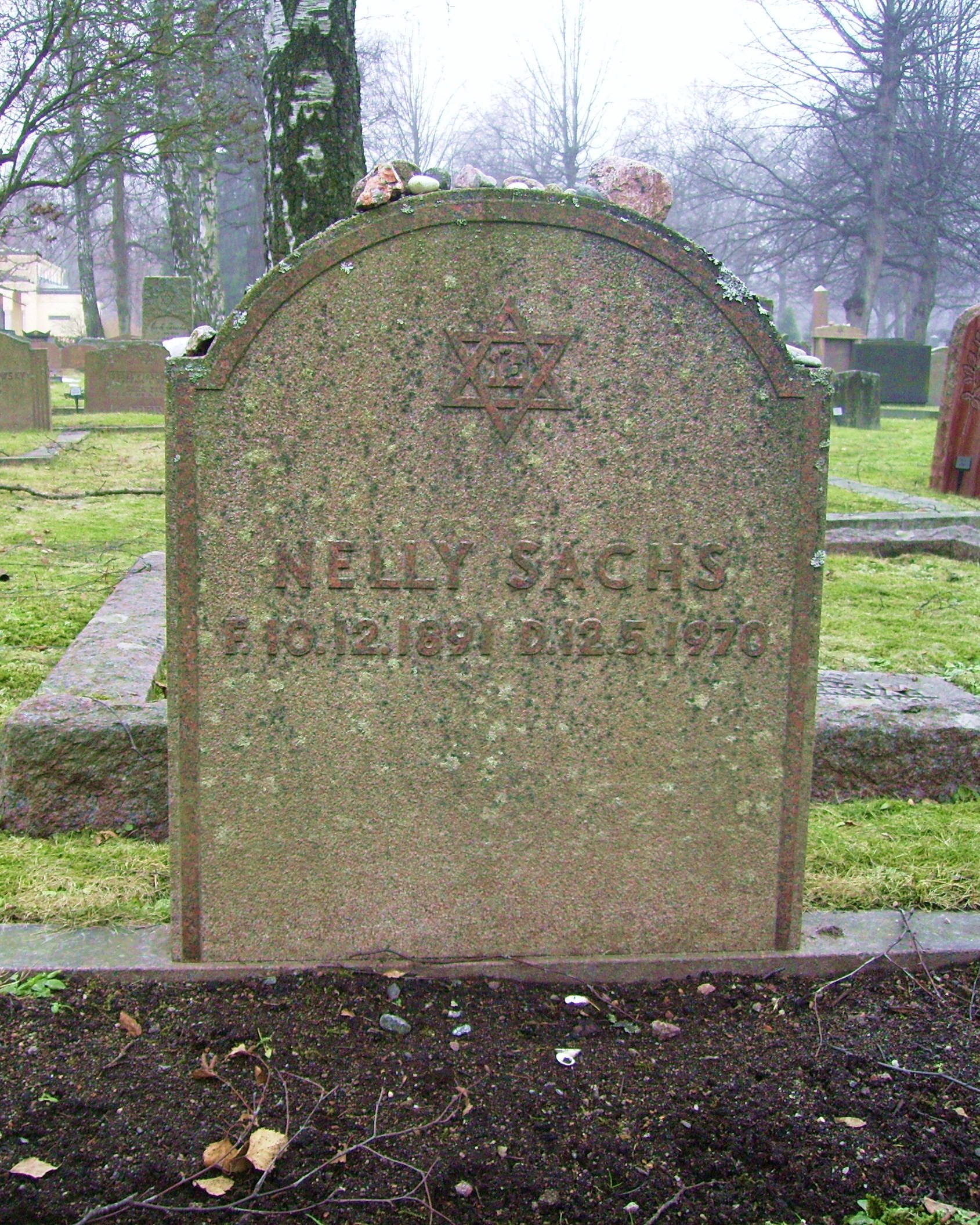 Picture of Nelly Sachs's grave at Judiska norra begravningsplatsen in Solna